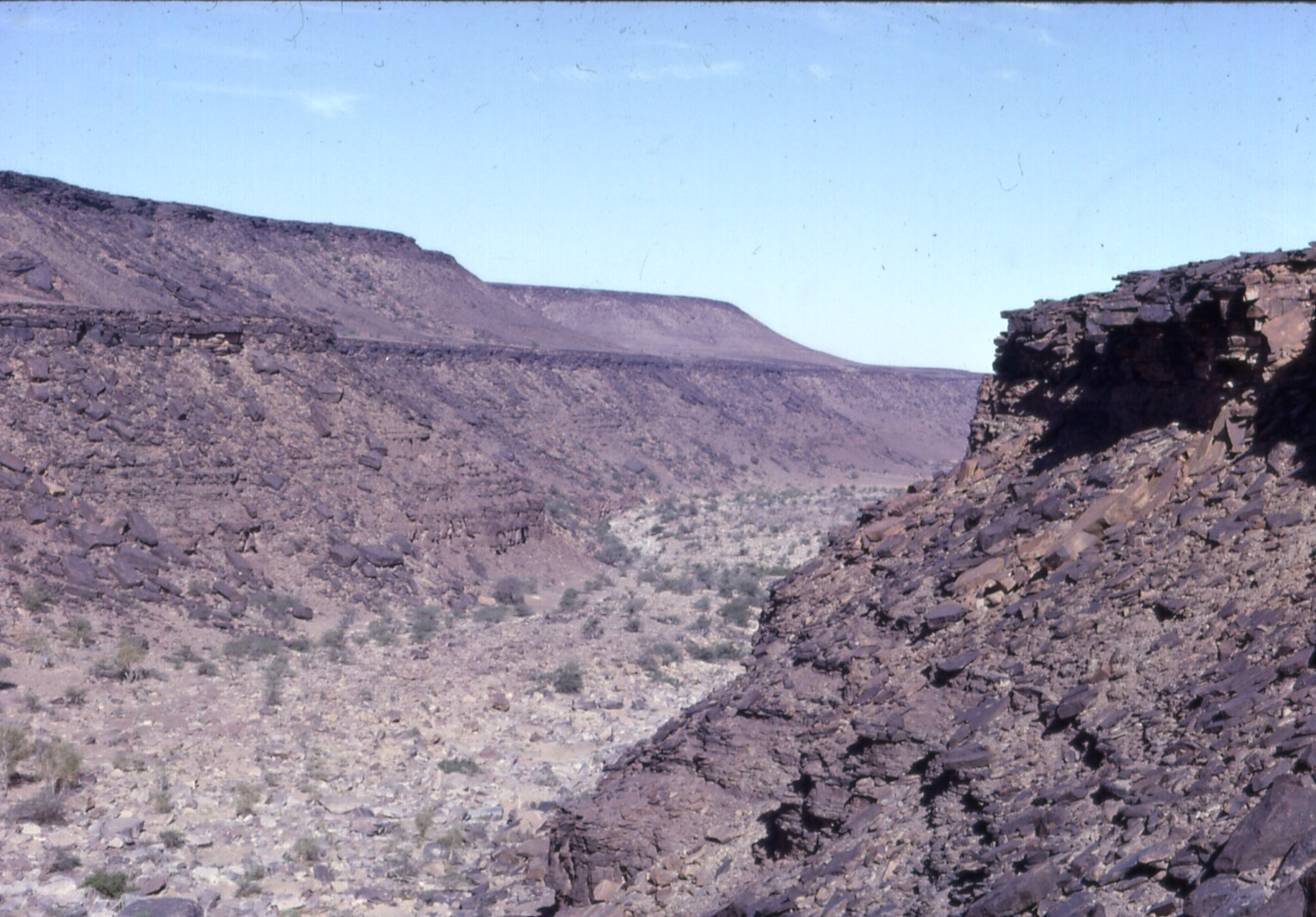 Wadi Melhah in the Sahara Desert, Mauritania. The underground water is near enough to the surface at the bottom of the wadi for vegetation to exist, which herders use to graze their camels.